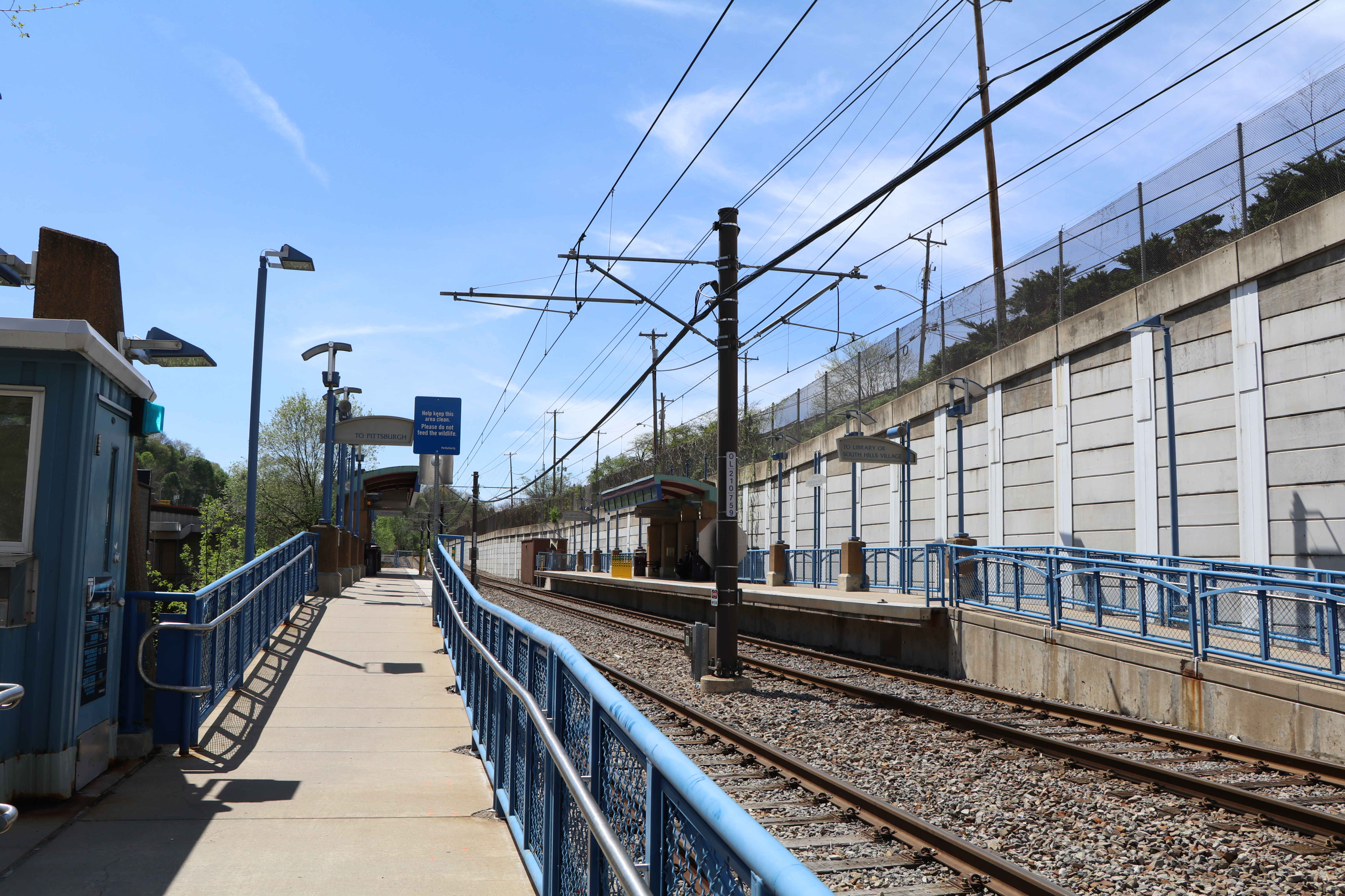 Memorial Hall station on the Blue Line, Castle Shannon, PA. View looking south, with the inbound platform on the left.